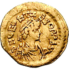 Leo II and Zeno. AV Tremisses (1.45 gm), obverse. Constantinople mint. D N LEO ET ZENO P P AVG, diademed, draped and cuirassed bust of Leo II right. RIC X 807; Depeyrot 99/2. From the William H. Williams Collection.